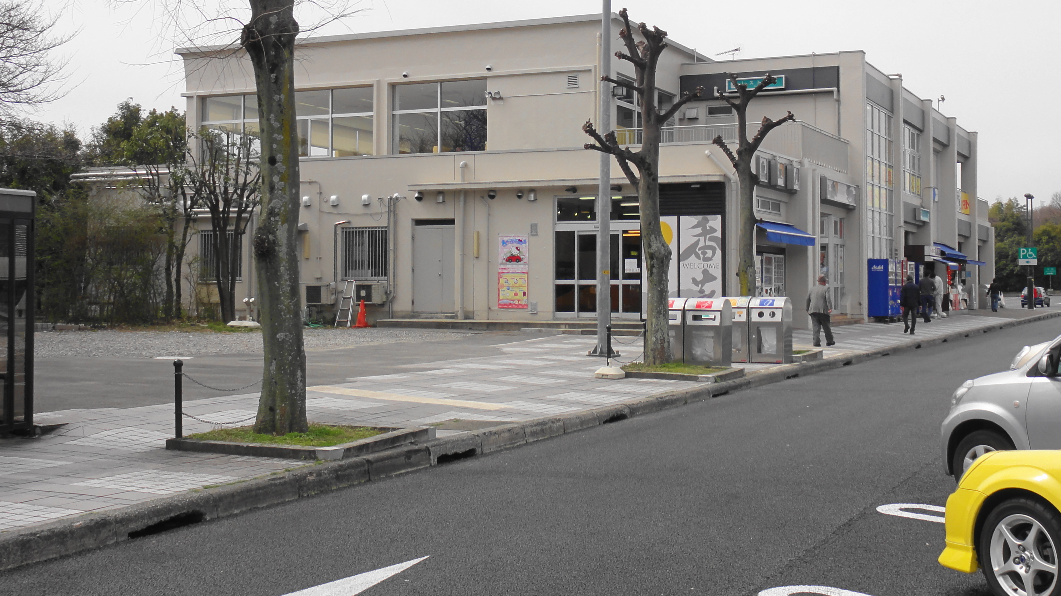 Kashiba Service Area nobori,Nara prefecture, Japan